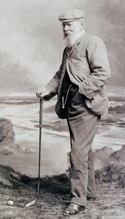 Signed photograph of Tom Morris (Senior), British, 1901. Photograph depicts him on the old course at St Andrews.